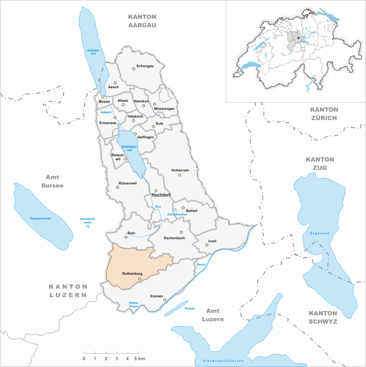 Municipality Rothenburg